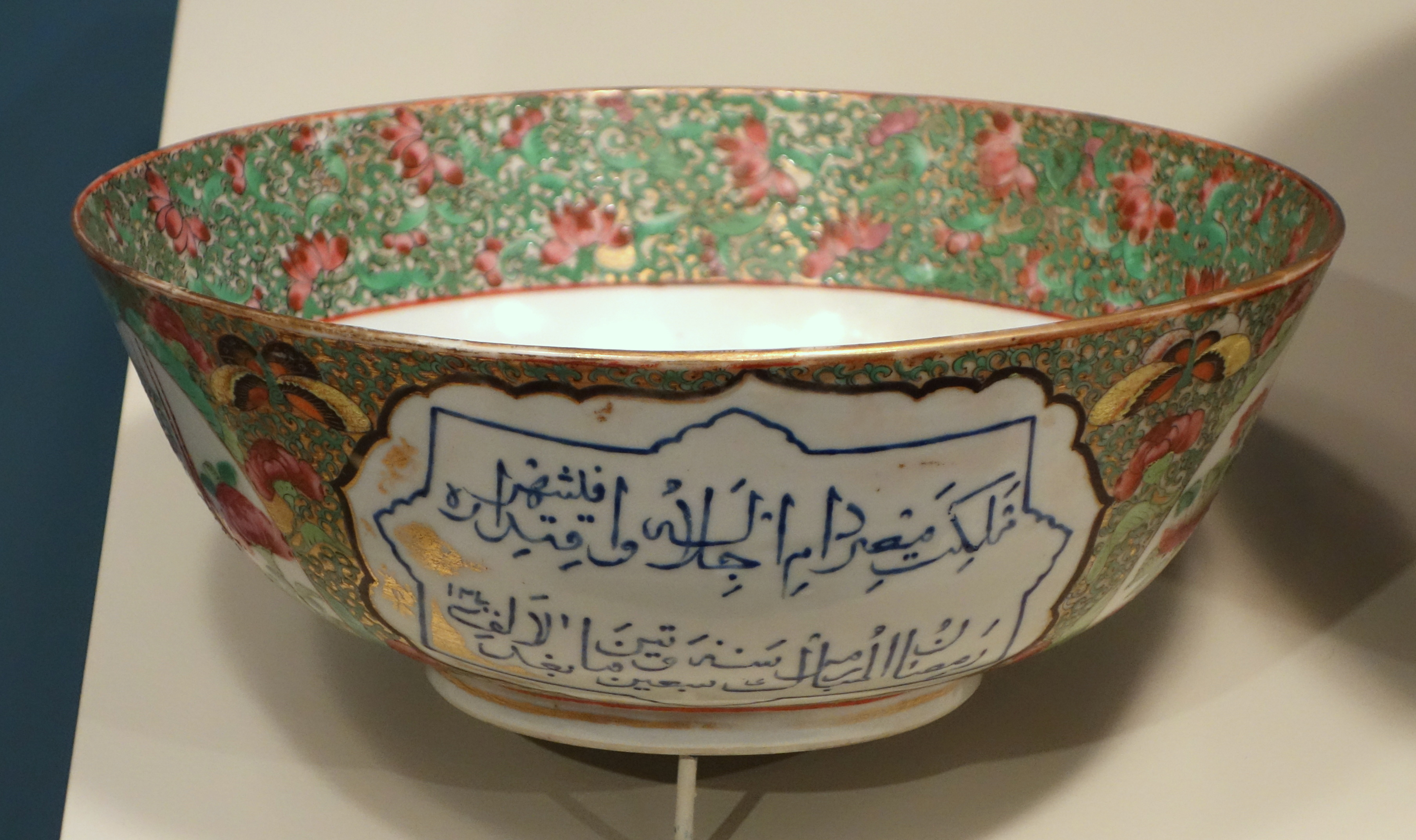 Exhibit in the Winterthur Museum, New Castle County, Delaware, USA. This work is in the public domain because the artist died more than 70 years ago.